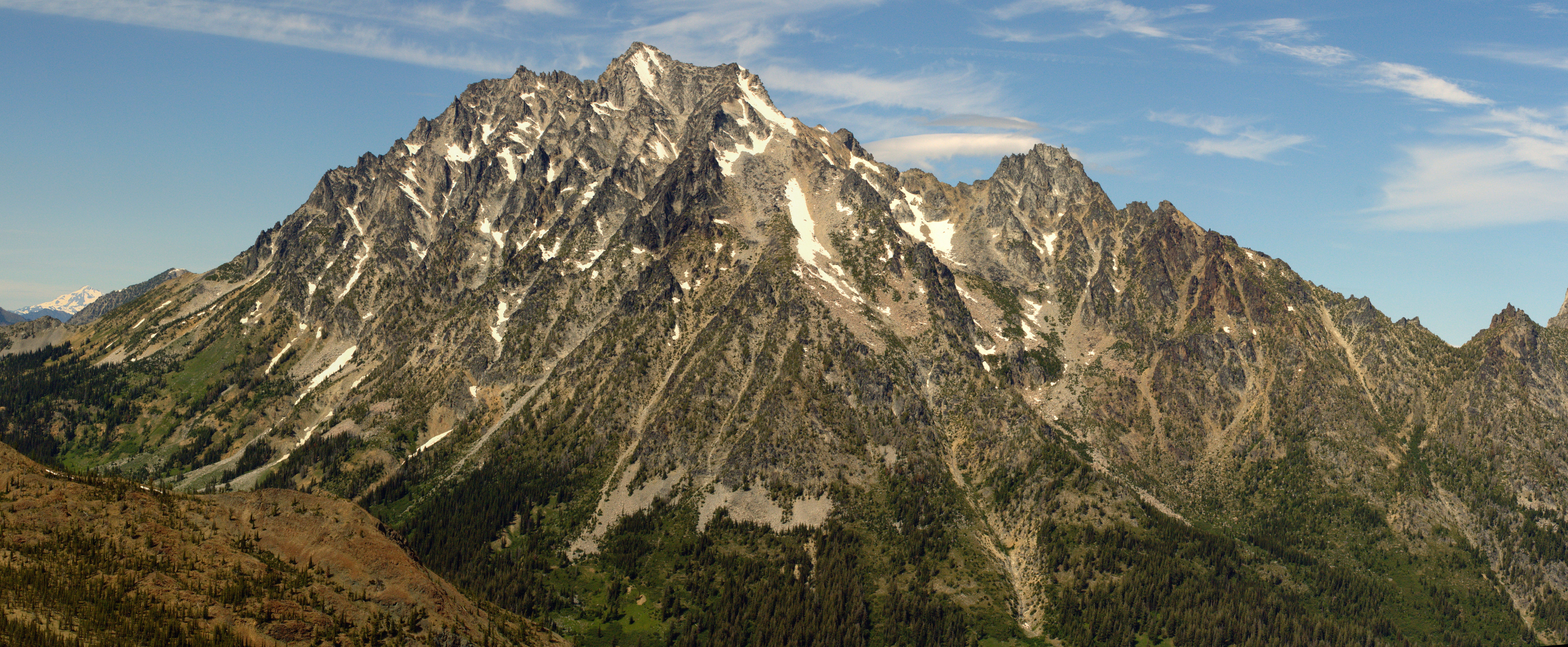 Mount Stuart (9415 feet, 2870 m, left center); Glacier Peak (glacier covered, extreme left, behind); Sherpa Peak (8605 feet, 2623 m, right center)